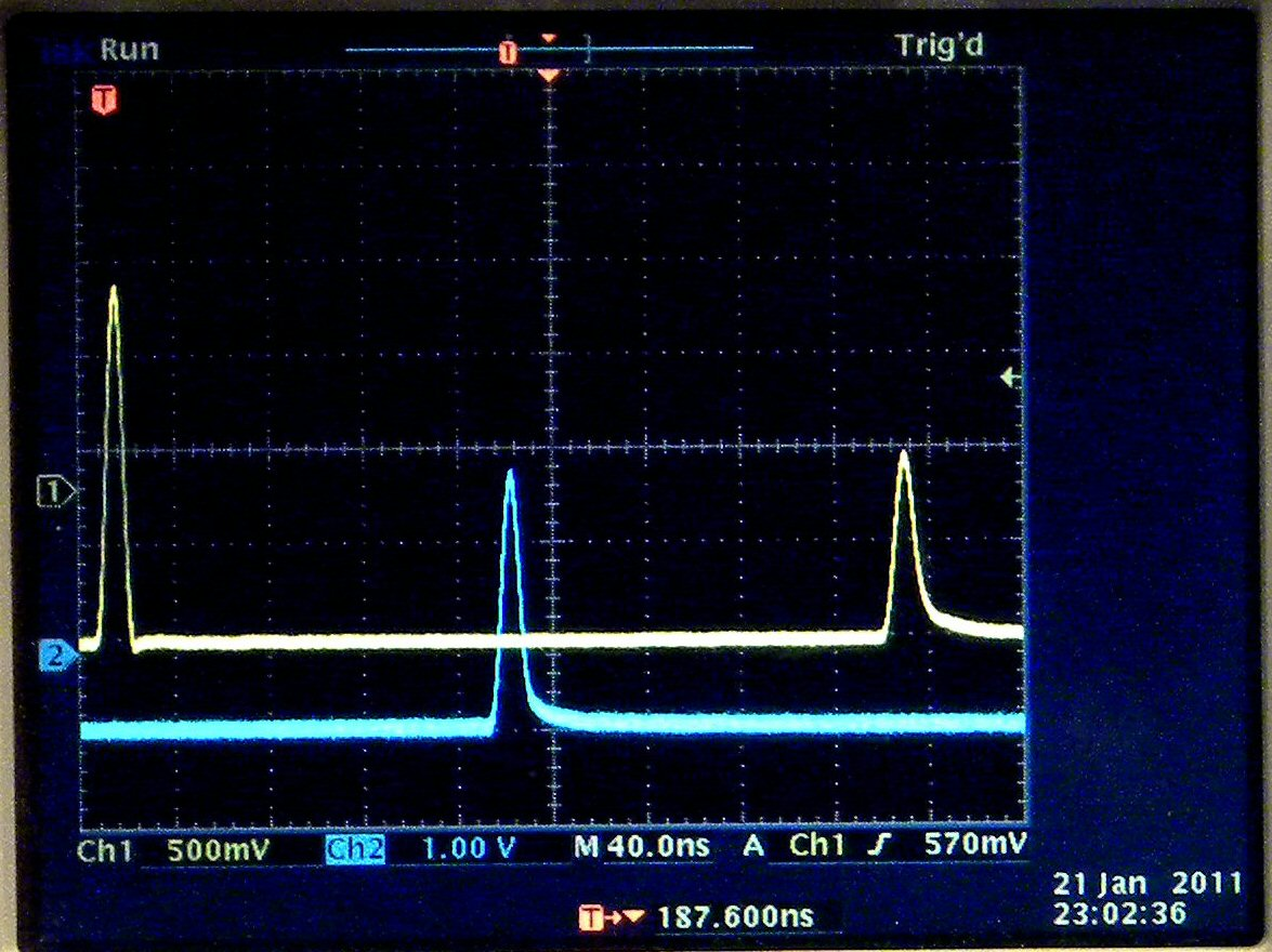 Oscilloscope trace from a TDR (Time Domain Reflectometer) connnected to a cable terminnated on a 1MΩ oscilloscope input.